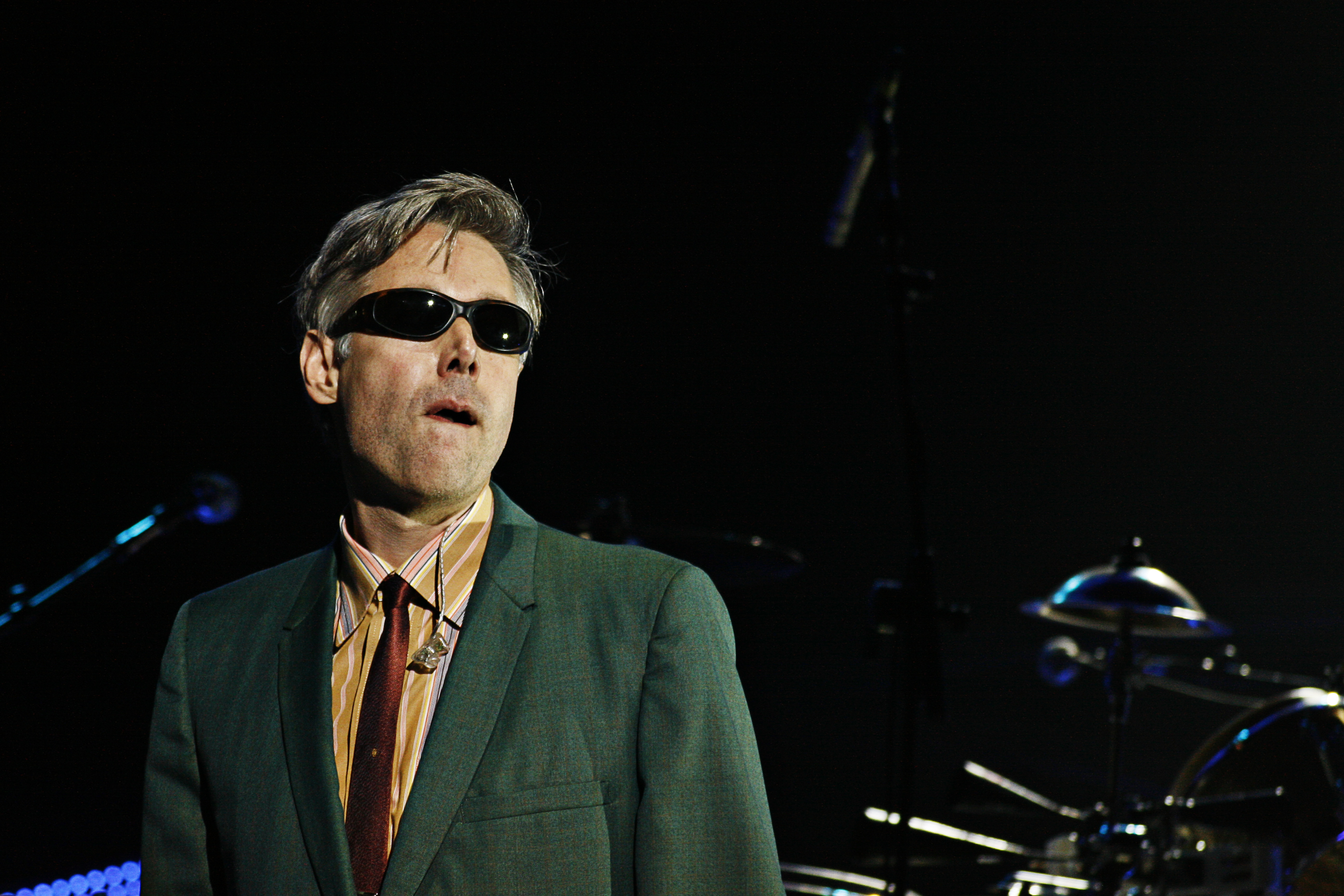 Adam Yauch, Bestie Boys at Brixton Academy - 05/09/07